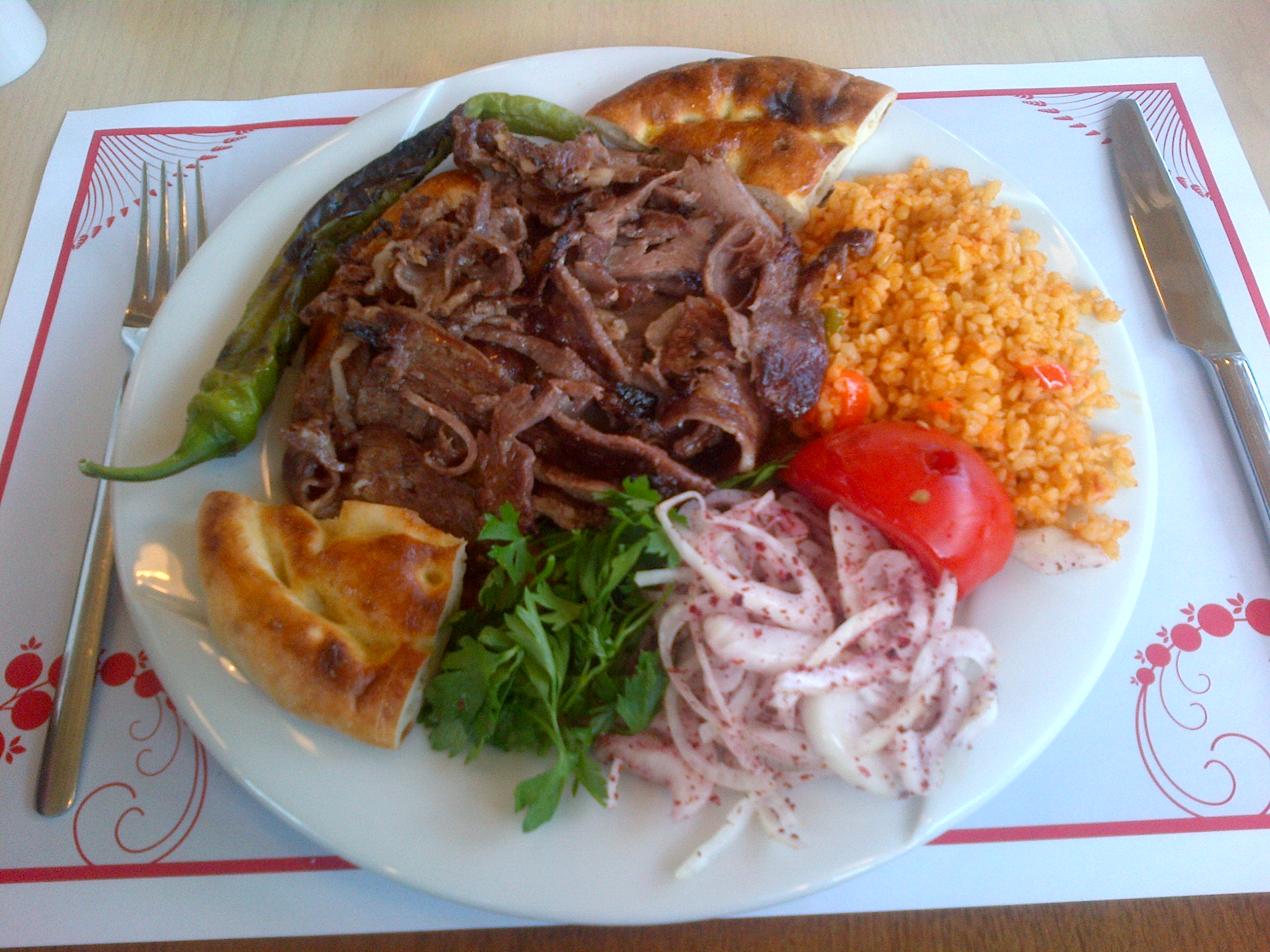 Döner served at a restaurant in Ankara, Turkey.